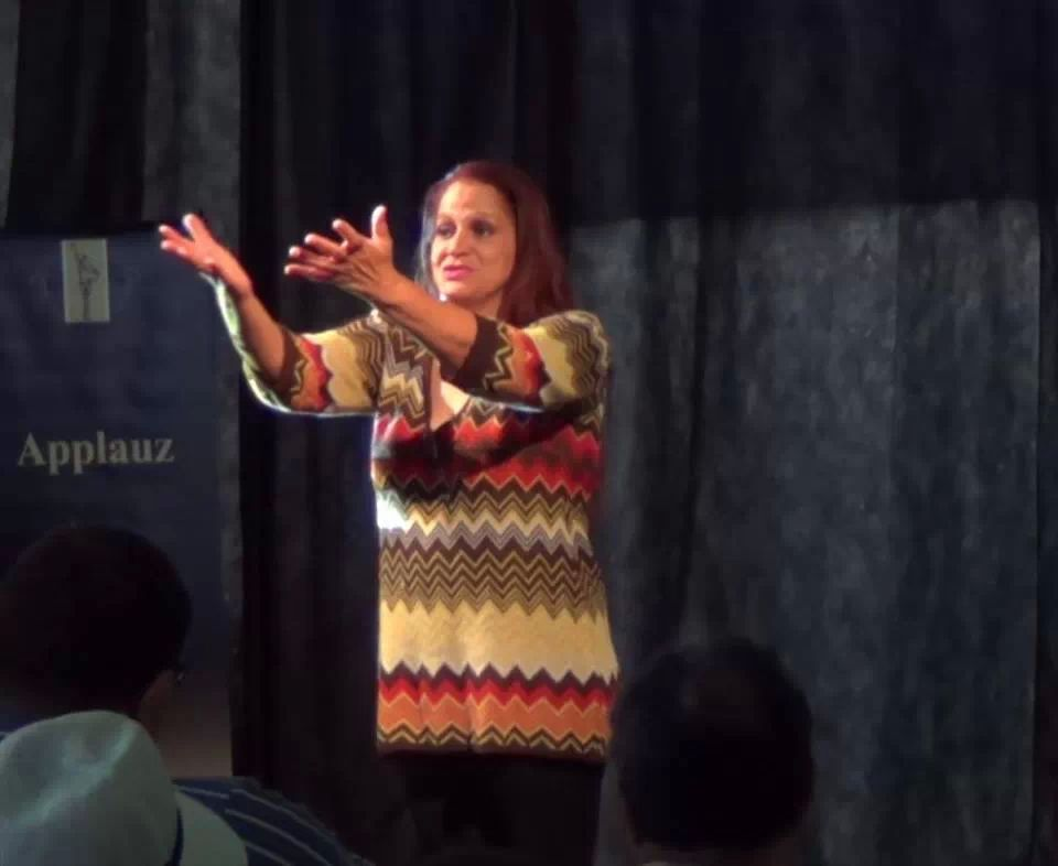 Applauding the audience for attending our This Is My Story Showcase!